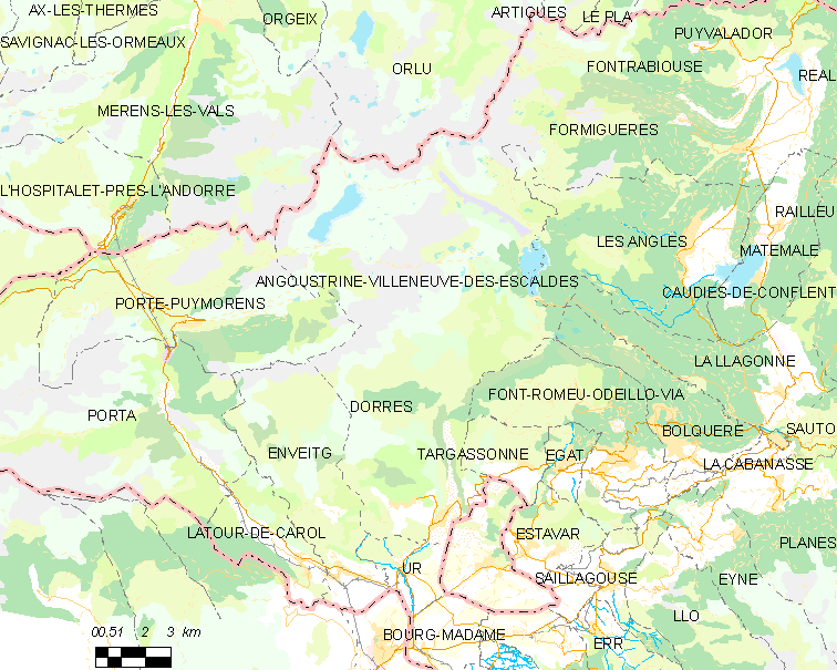 Map of French municipality